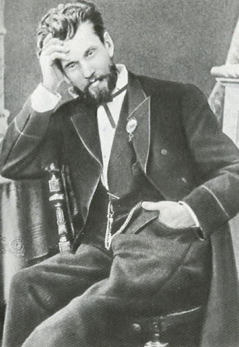 Russian conductor Eduard Napravnik